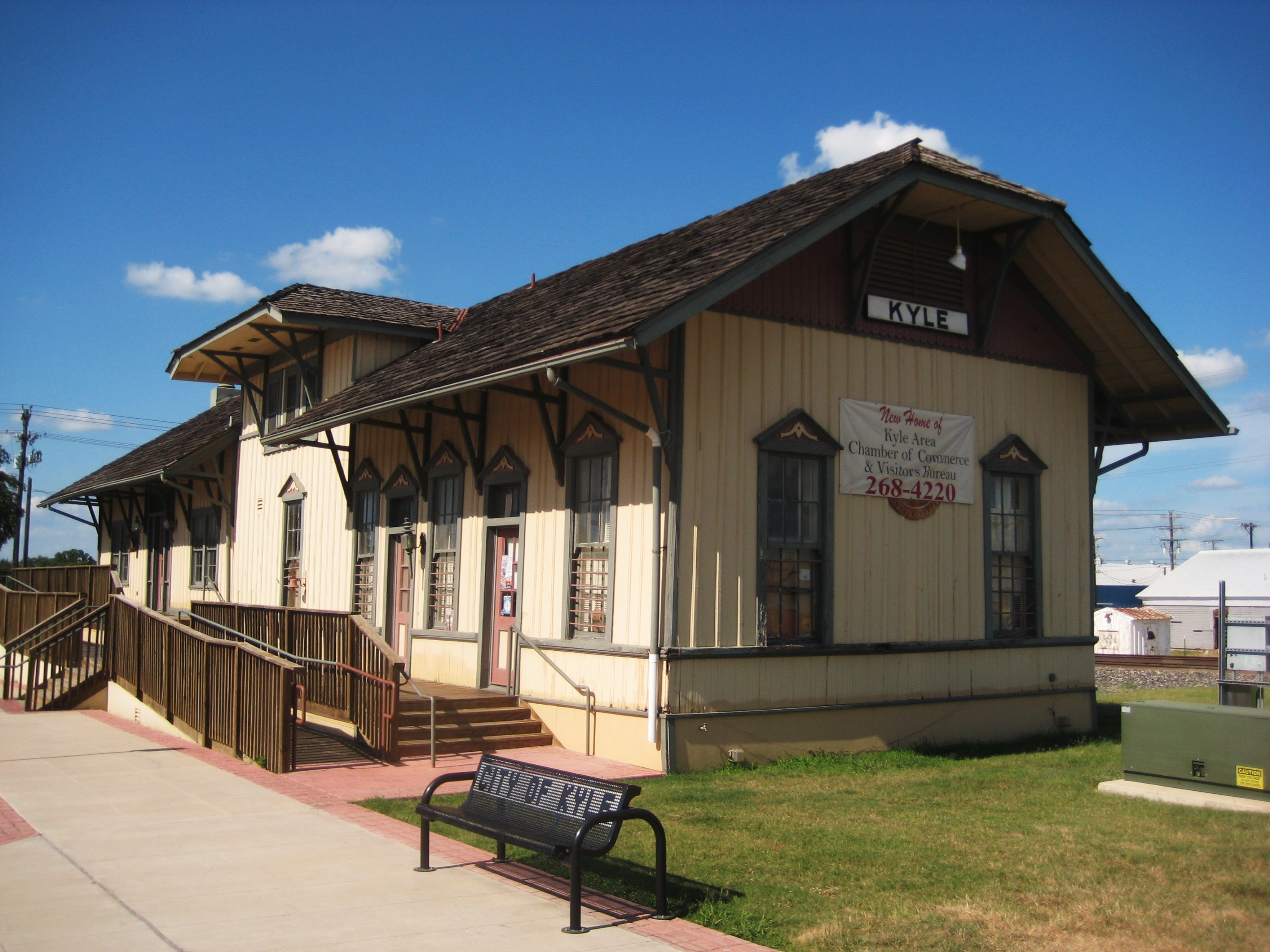 Old train depot at Kyle, Texas.